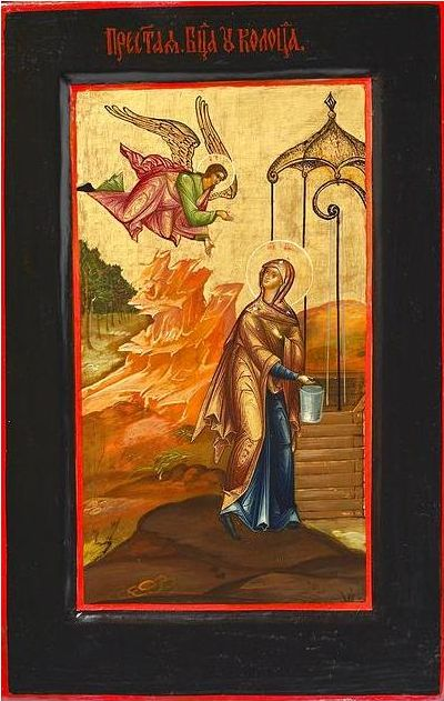 Annunciation near the well